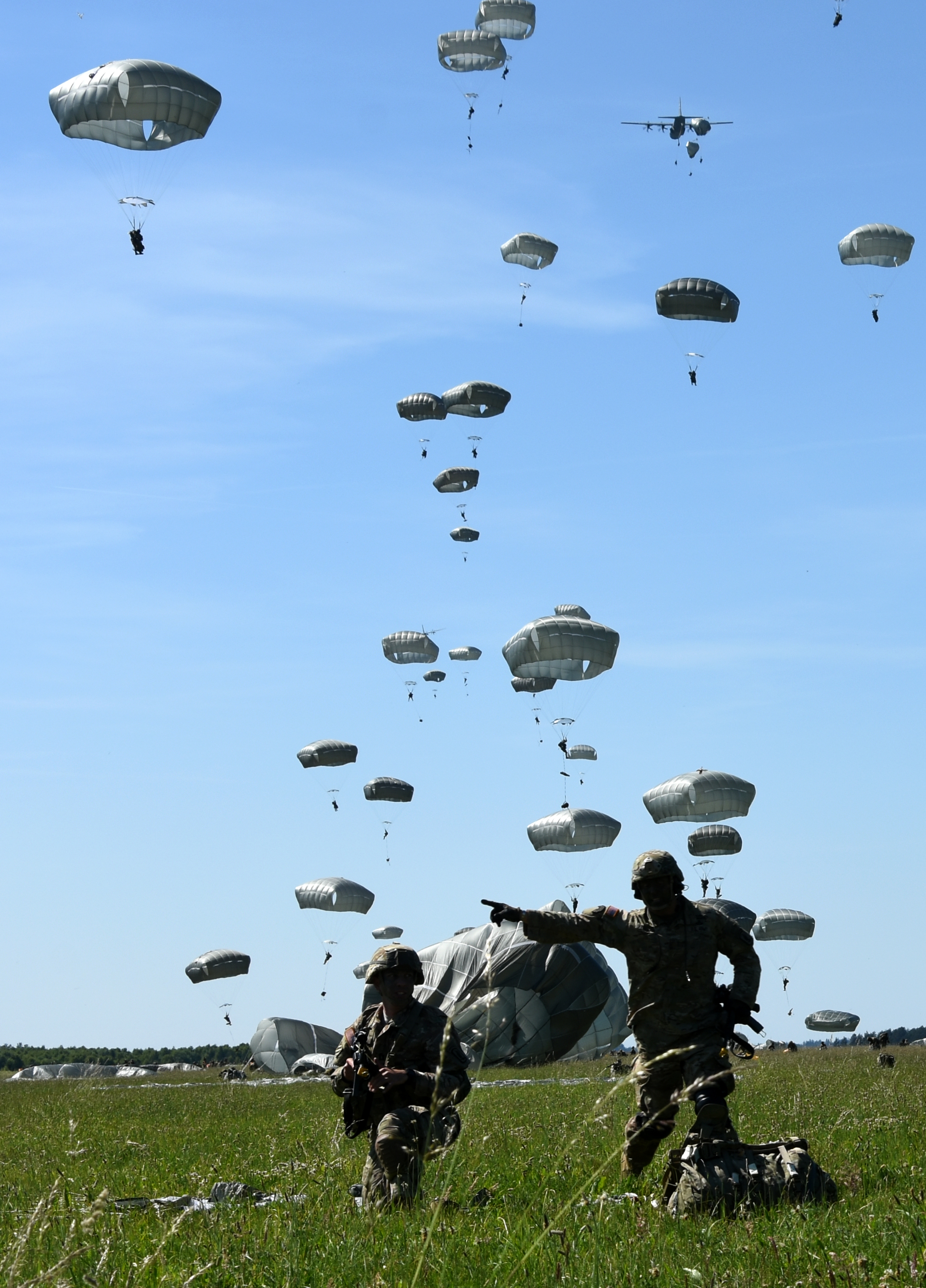 Paratroopers assigned to 173rd Airborne Brigade conduct a Joint Forcible Entry into Świdwin Air Base, Poland during Polish led Exercise Anakonda 2016. Anakonda 2016, scheduled to run through June 17, is a Polish national exercise designed to train, exercise and integrate Polish command and force structure into a joint multinational environment..